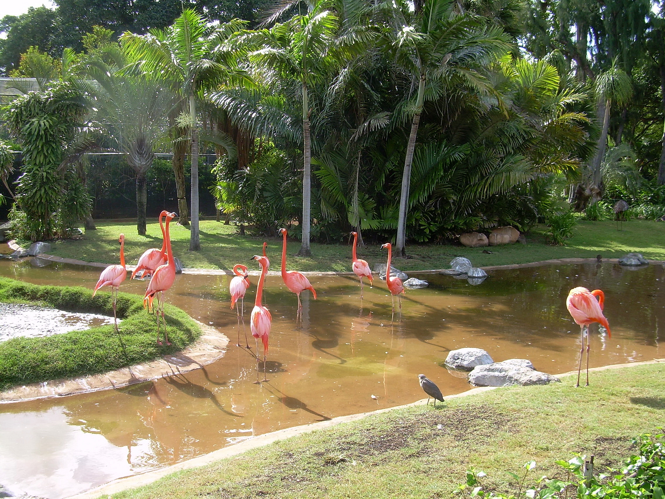 American Flamingos from the Waikiki Zoo